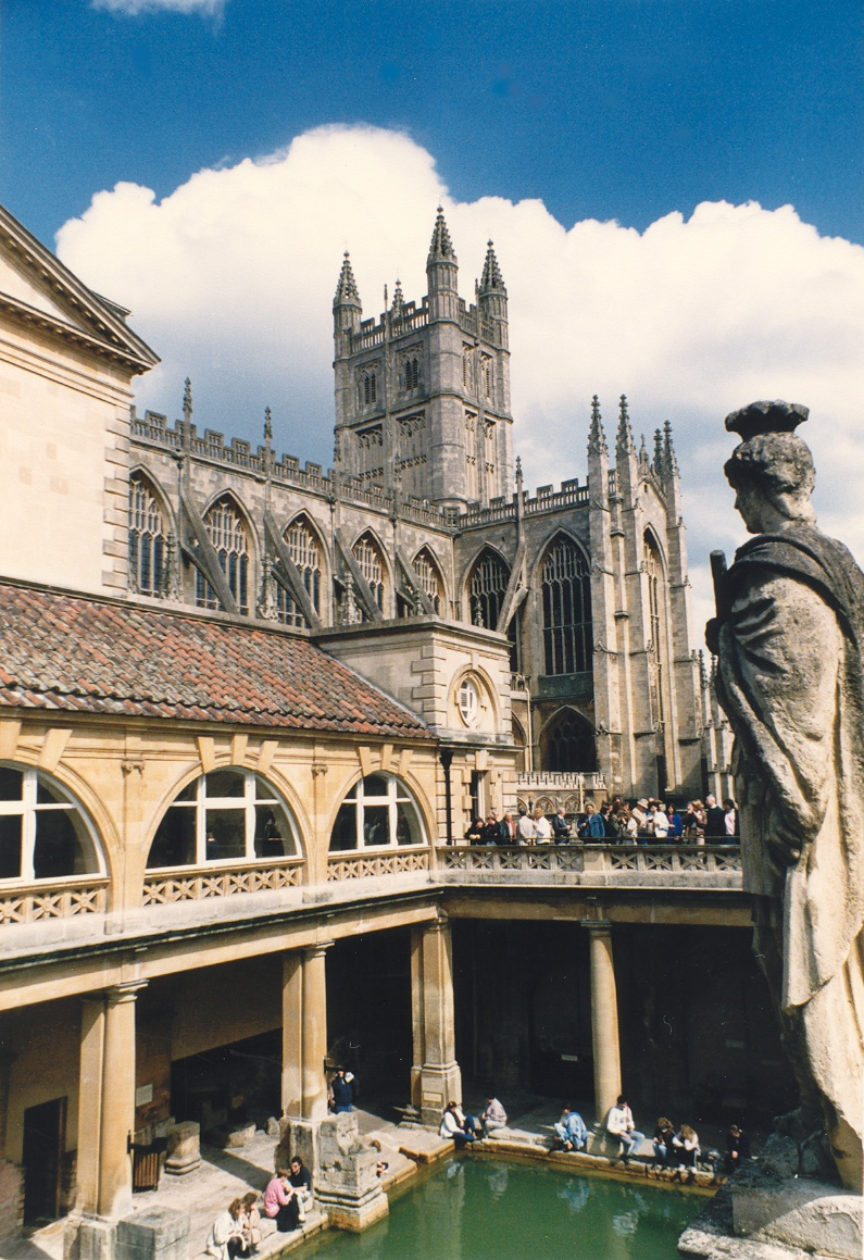 Gereconstrueerde thermen in Bath, Engeland